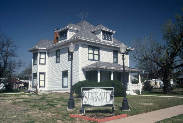 Streetside view of the Joseph L. Spickard House, a historic house in Stafford, Kansas, United States. Located at the intersection of Stafford and Green Sts., the house was built in 1905 and has been listed on the National Register of Historic Places since 2005. It is owned and operated by the Henderson House Inn and Retreat Center.